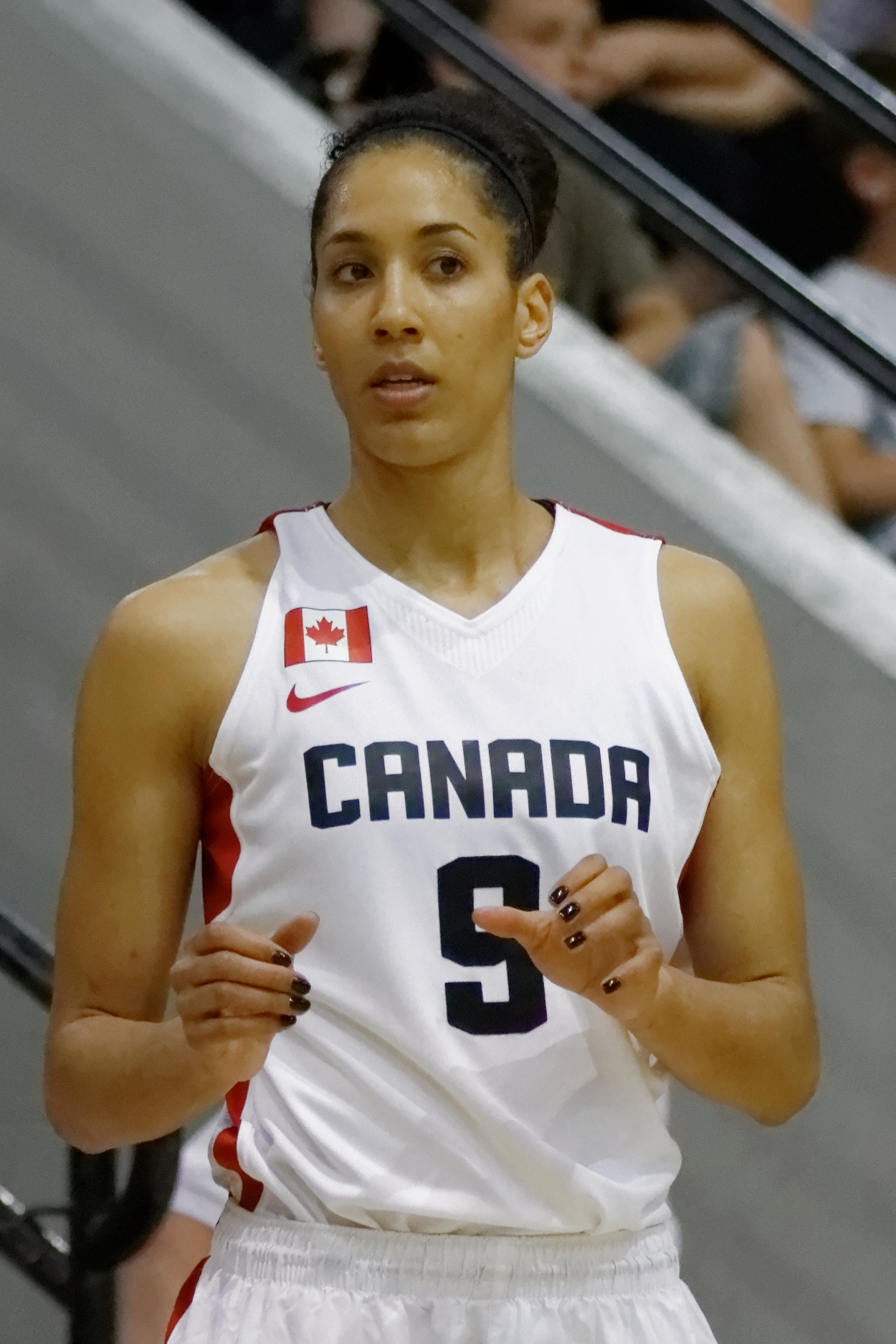 EuroEssonne, France - Canada, 7 June 2013.